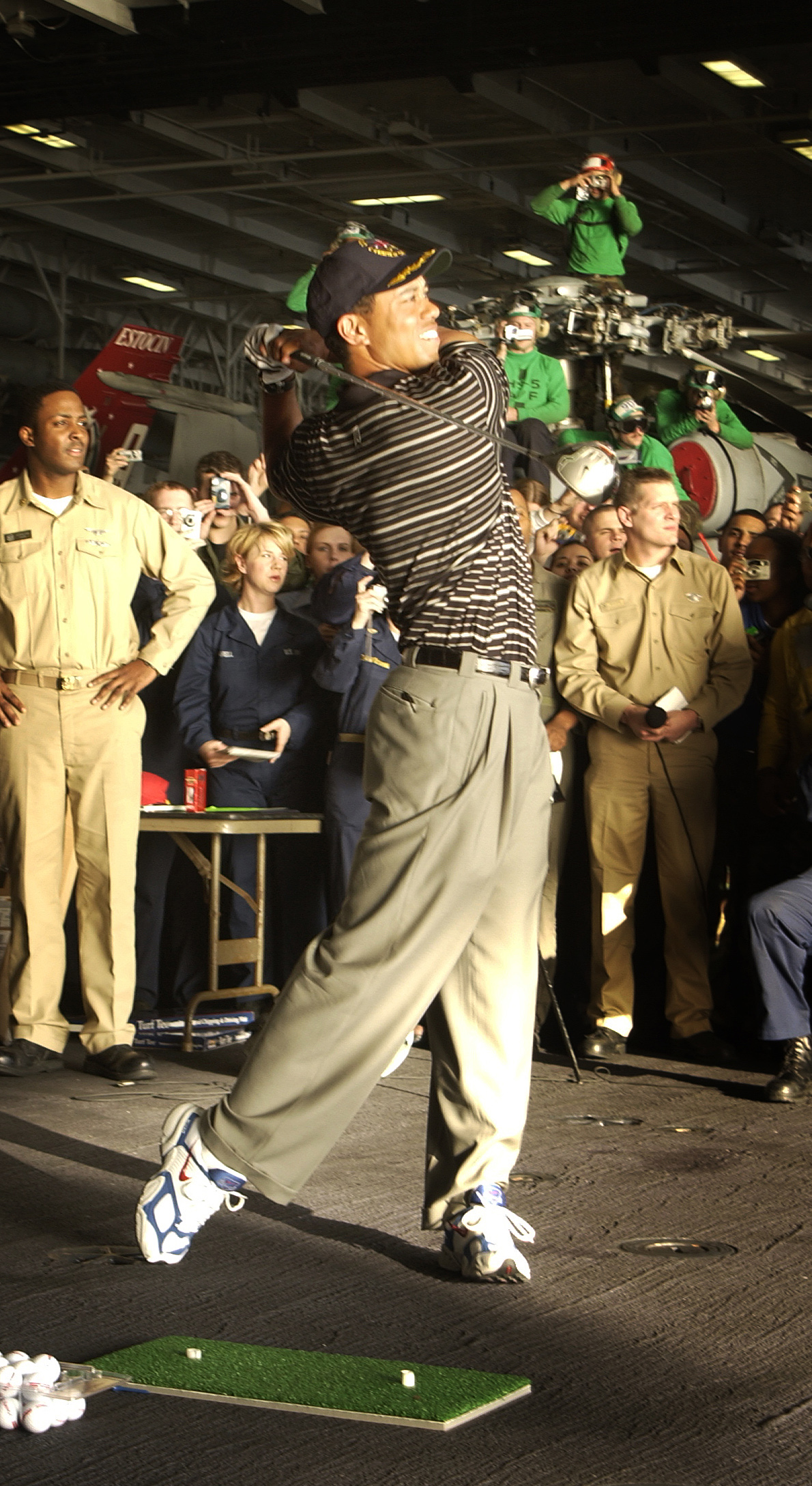 040303-N-5319A-009 Arabian Gulf (Mar. 3, 2004) – Sailors watch professional golfer Tiger Woods hit a few golf balls during a demonstration in the hanger bay of the nuclear powered aircraft carrier USS George Washington (CVN 73). Tiger Woods accompanied by his fiancé Elin Nordegren, PGA player Mark O'Meara, and caddies Steve Williams and Greg Rita visited the Norfolk, Va. Based carrier in the Arabian Gulf before participating in the European PGA Tour's Dubai Desert Classic on Thursday. The George Washington Carrier Strike Group (CSG) and Carrier Air Wing Seven (CVW-7) are deployed to the Arabian Gulf in support of Operations Iraqi and Enduring Freedom.